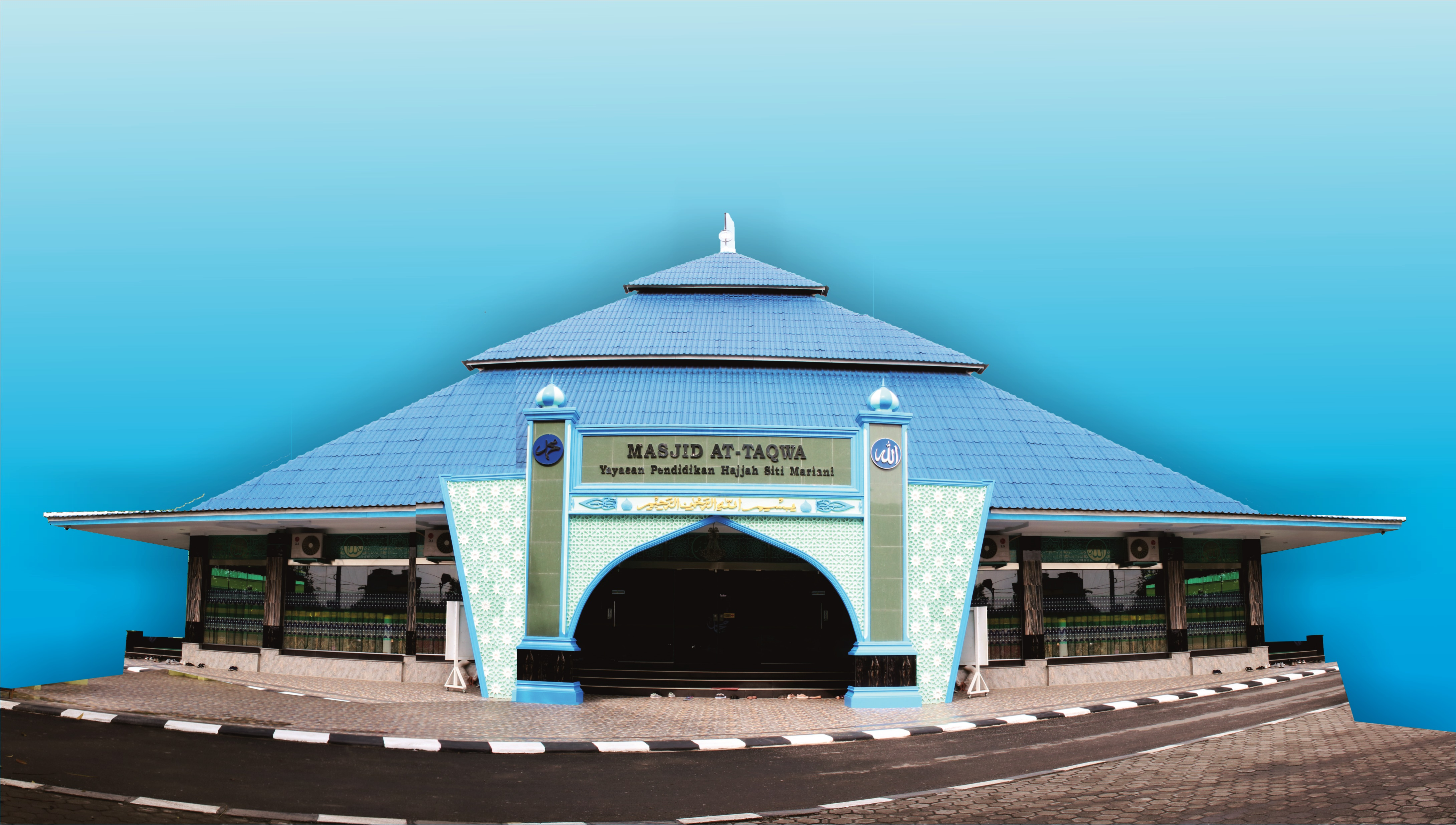 Foto Masjid At-Taqwa Universitas Medan Area